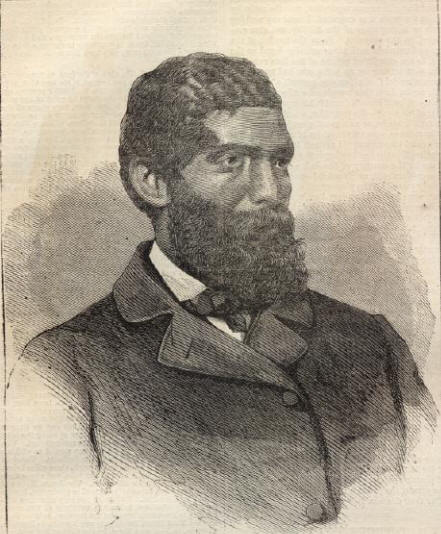 JOHN H. ROCK, COLORED COUNSELOR